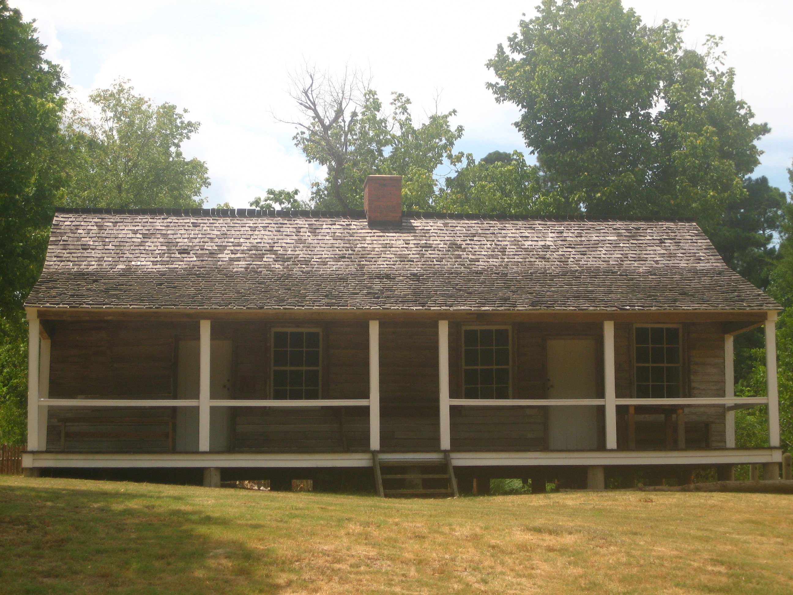 I took photo on Aug. 7, 2008.Billy Hathorn (talk) 21:55, 12 September 2008 (UTC)